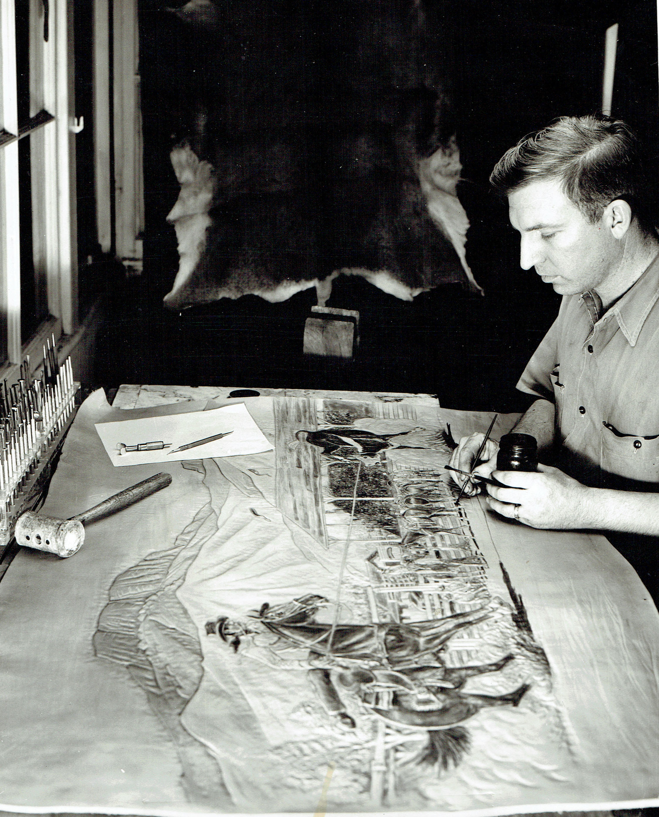 Young Al Stohlman paiting a leather piece at his work bench